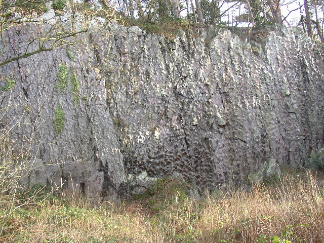 'Donkey Rock', Broughton-in-Furness. By the roadside at SD210867, Bush Green Quarry has a cliff-face 70m across and 10m high that shows 'sole structures' in the almost vertically bedded turbidite sandstones and mudstones (Coniston Grits) of Silurian age, about 400 million years old. These are knobbly lumps on the surface of the rock, formed by the deposition of hard material on the sea-bed by deep-water currents, and there are more than 1800 of them, mainly types known as flute and load casts, covering six bedding planes ( Foxfield.html). Further information see Moseley 1978 Geology of the Lake District, p 143, Yorkshire Geological Society.